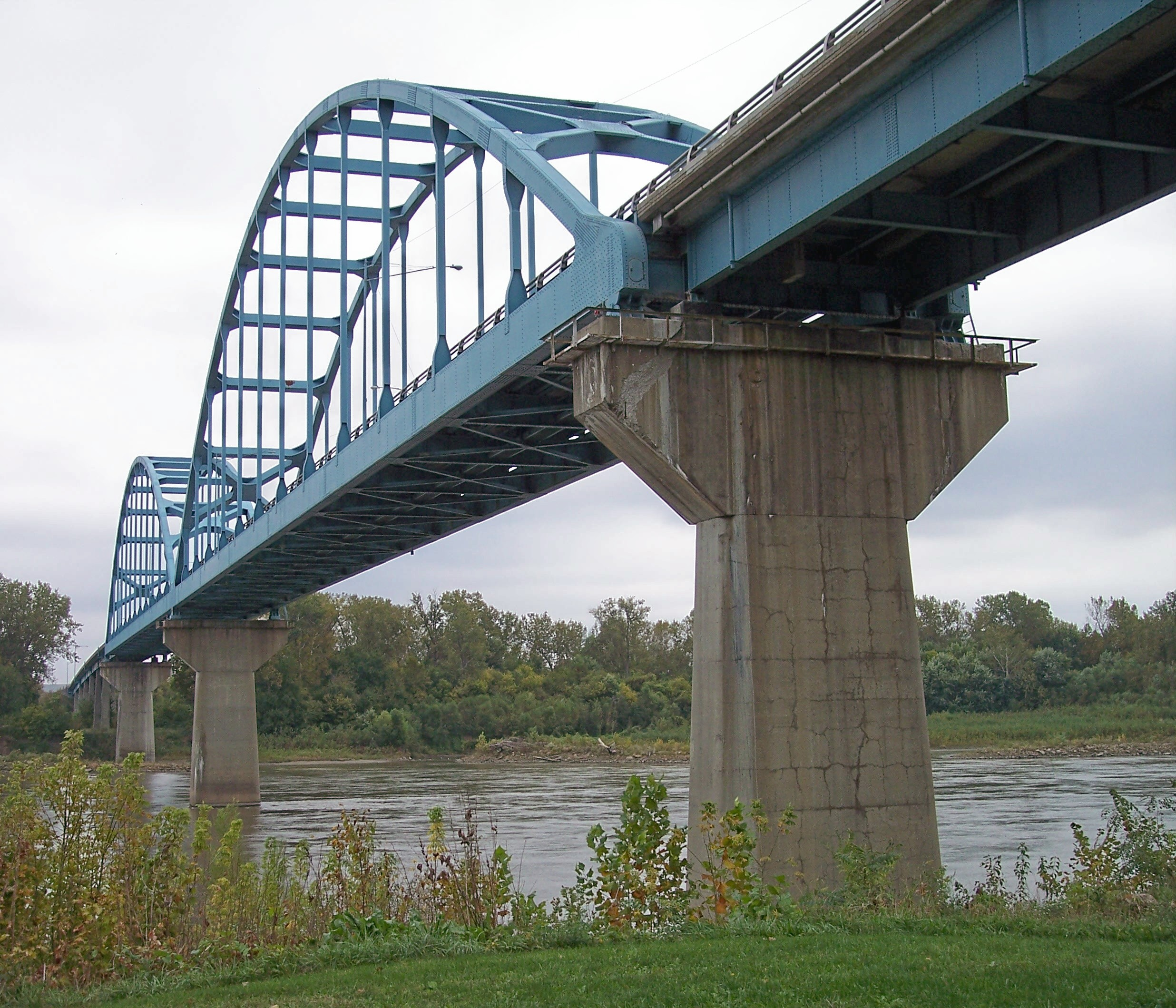 The Centennial Bridge crossing the Missouri River — connecting Leavenworth, Kansas with Platte County, Missouri. An Iron tied arch bridge completed in 1955.